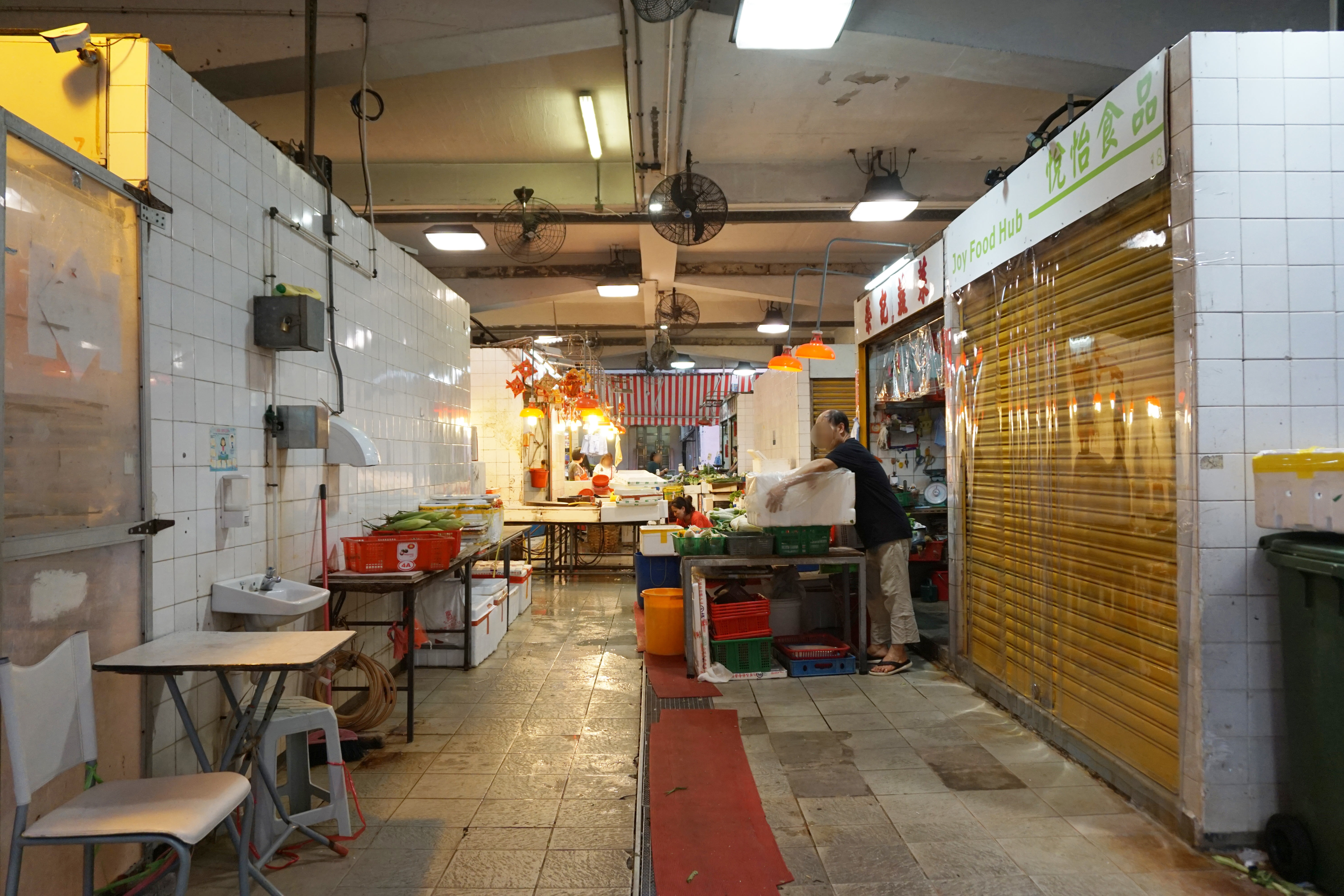 Ap Lei Chau Estate in Ap Lei Chau, Hong Kong.